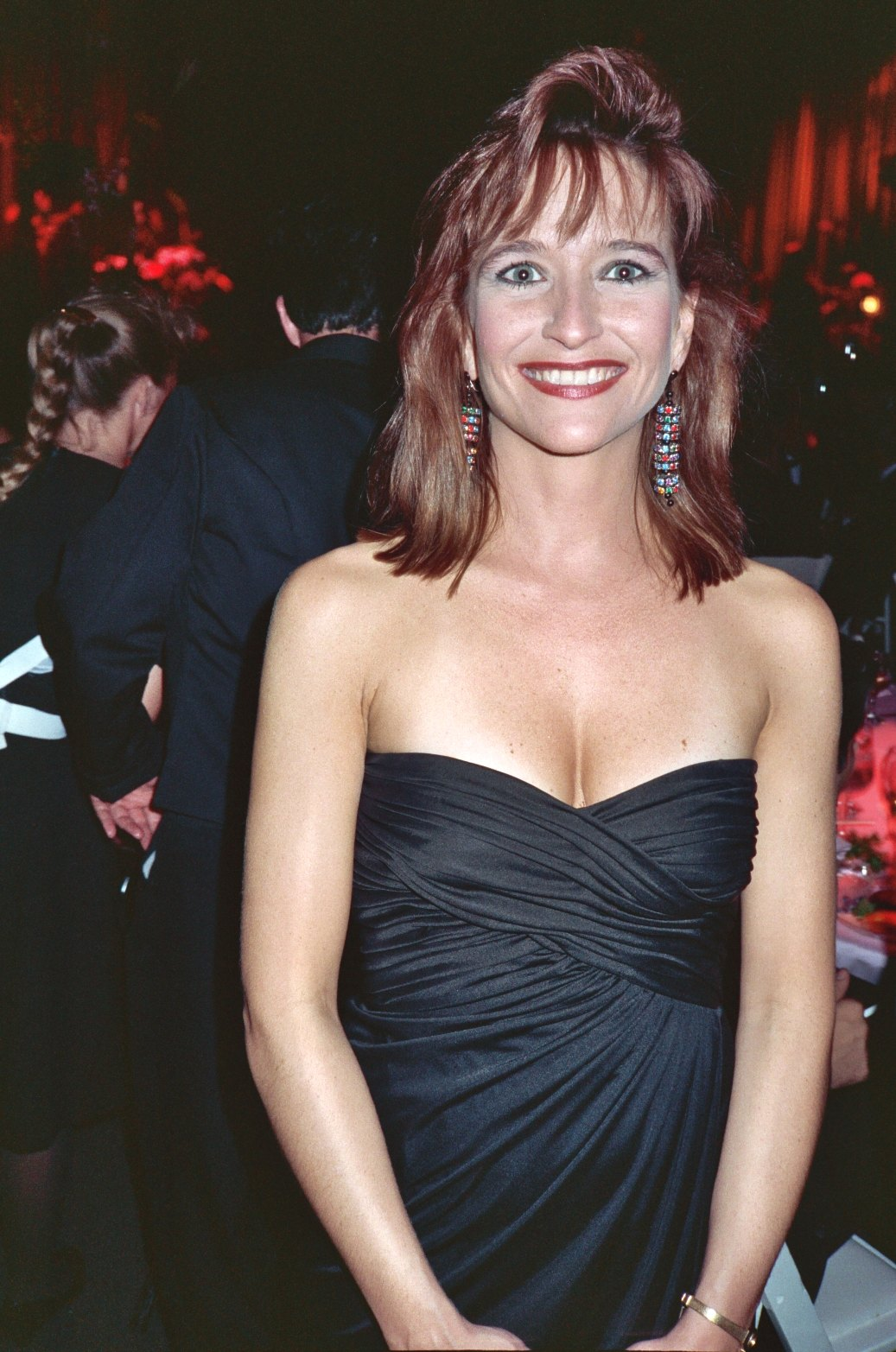 Photo taken at the 40th Emmy Awards, August 1988 - Governor's Ball - Permission granted to copy, publish or post but please credit "photo by Alan Light" if you can